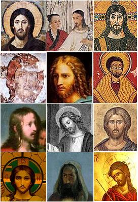 A composite obtained from the following gallery of public domain Wikipedia images